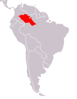 Distribution of C. melanoceohalus.